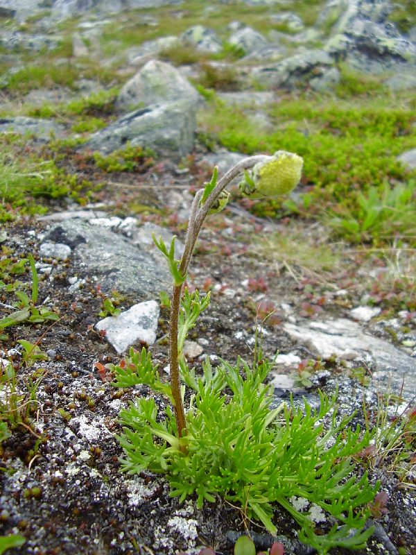 Artemisia norvegica Norwegian Mugwort. Geithøtta, Sør-Trøndelag, Norway